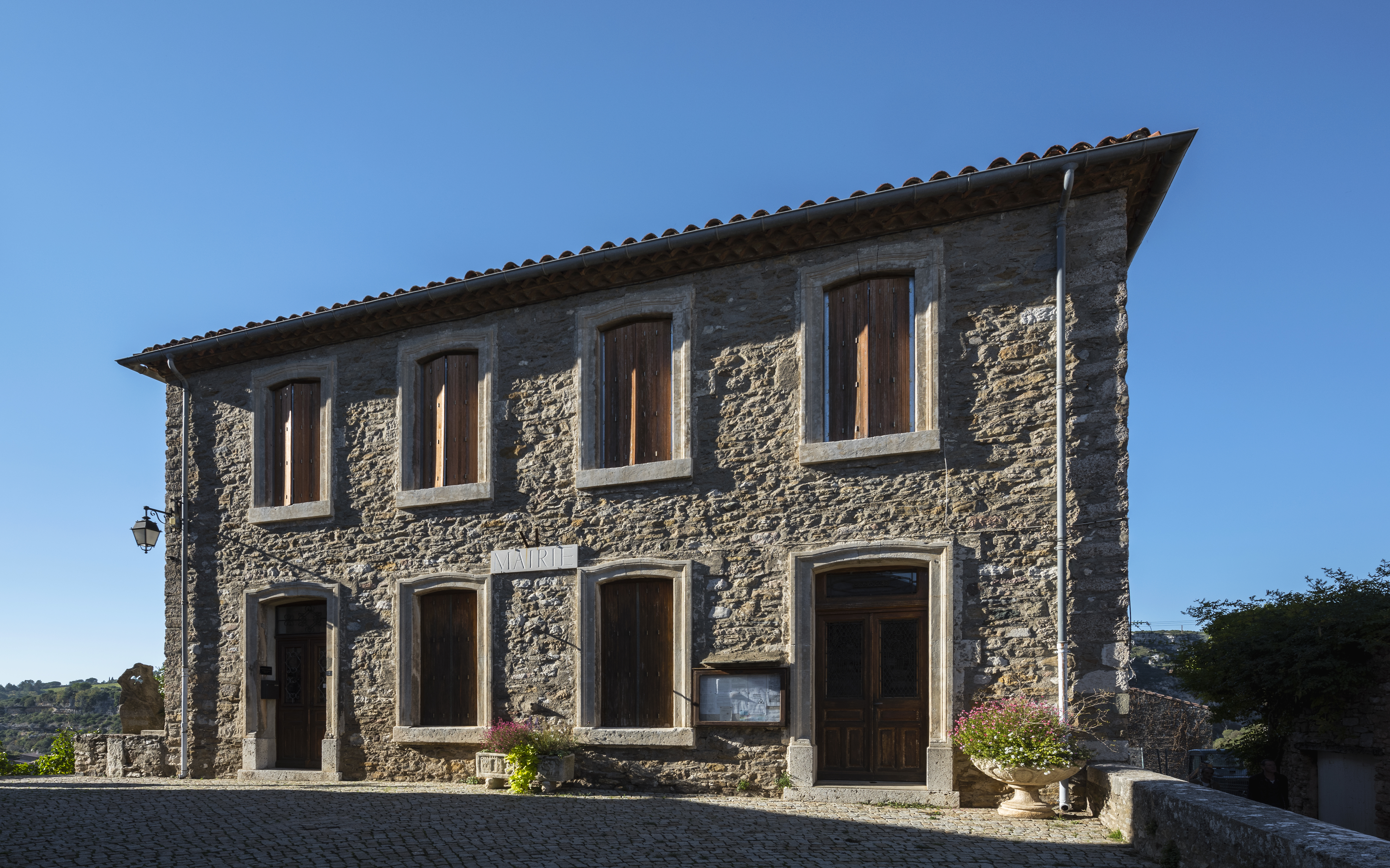 Town hall of Minerve. Hérault, France